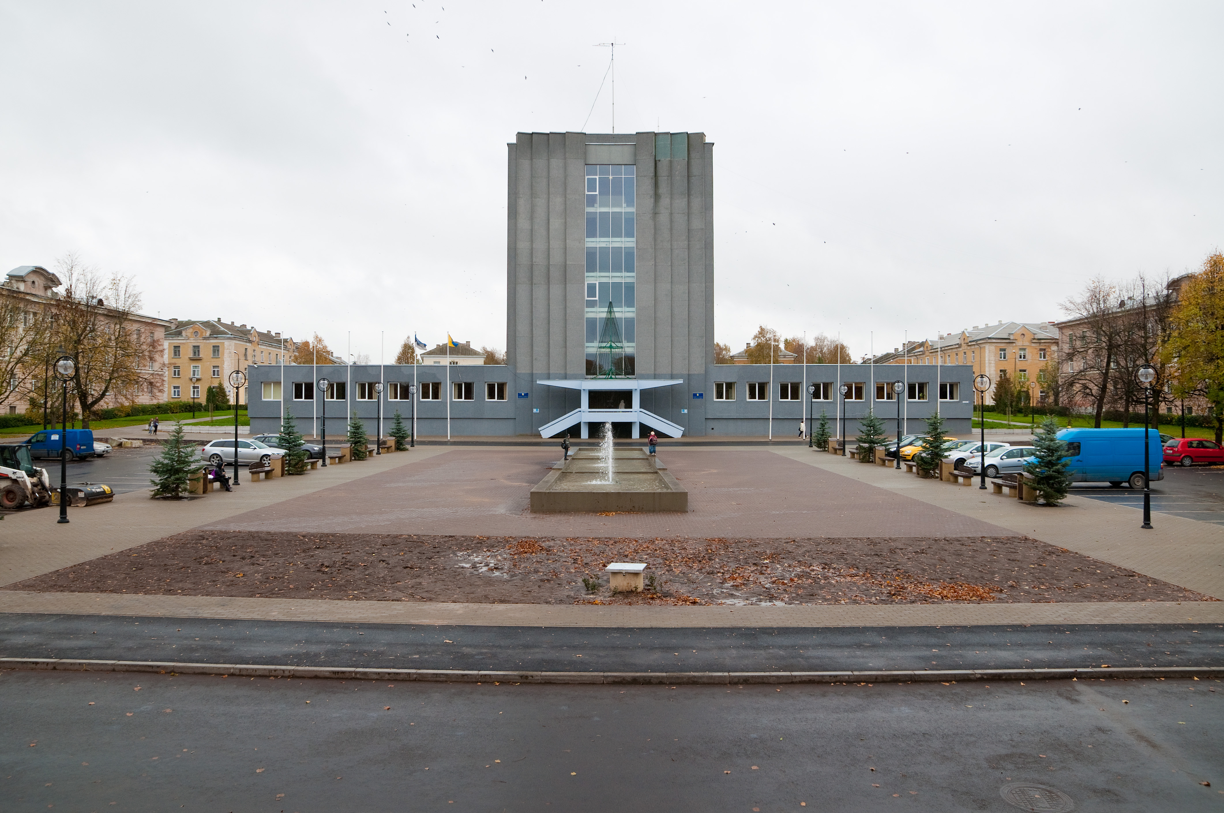 Town Hall of Kohtla Järve in Estonia